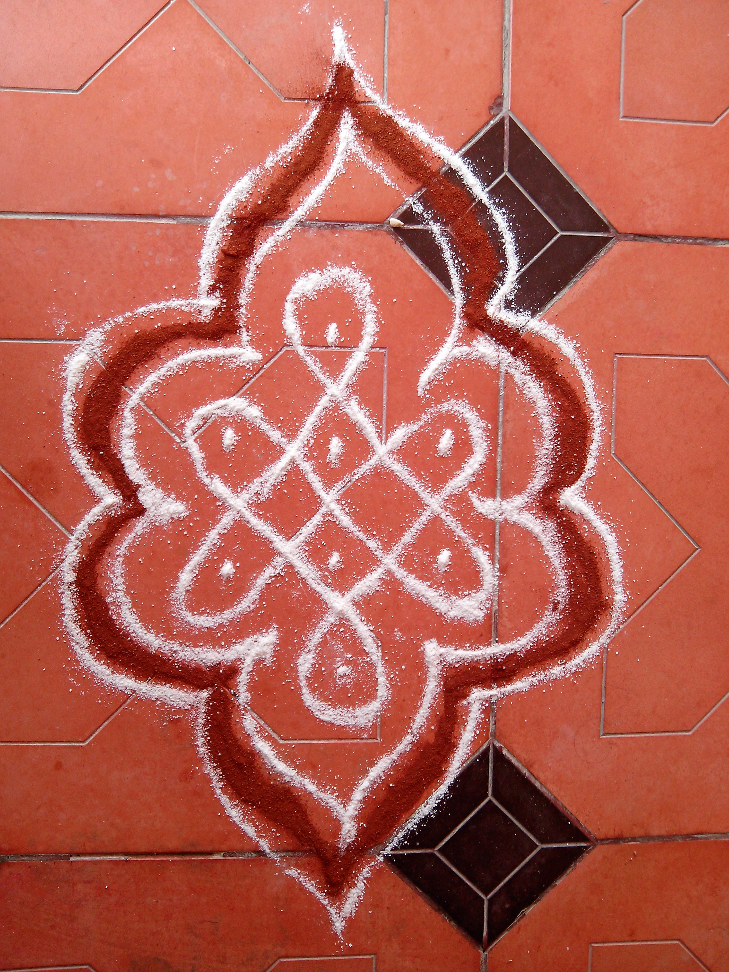 A floral line (Kolam) of Tamil Nadu, India.